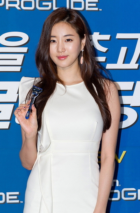 Kim Sa-rang (actress) at Gillette Fusion Proglide launching event in Seoul, South Korea, in September 2011